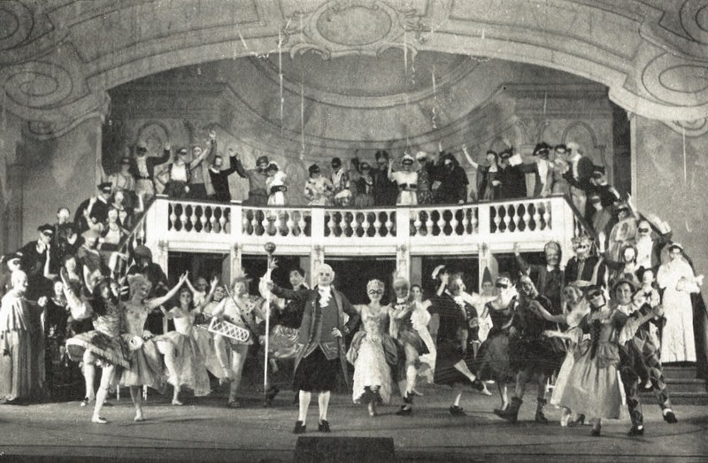 The Danish Jyske Opera permforming Carl Nielsen's Maskarade in 1955.